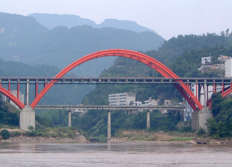 Suspended deck compression arch bridge. Located at a tributary of the Chang Jiang (Yangtze) river entering the river's left bank. Photo taken by Mike Martin, early October 2002 and uploaded by User:Leonard G.